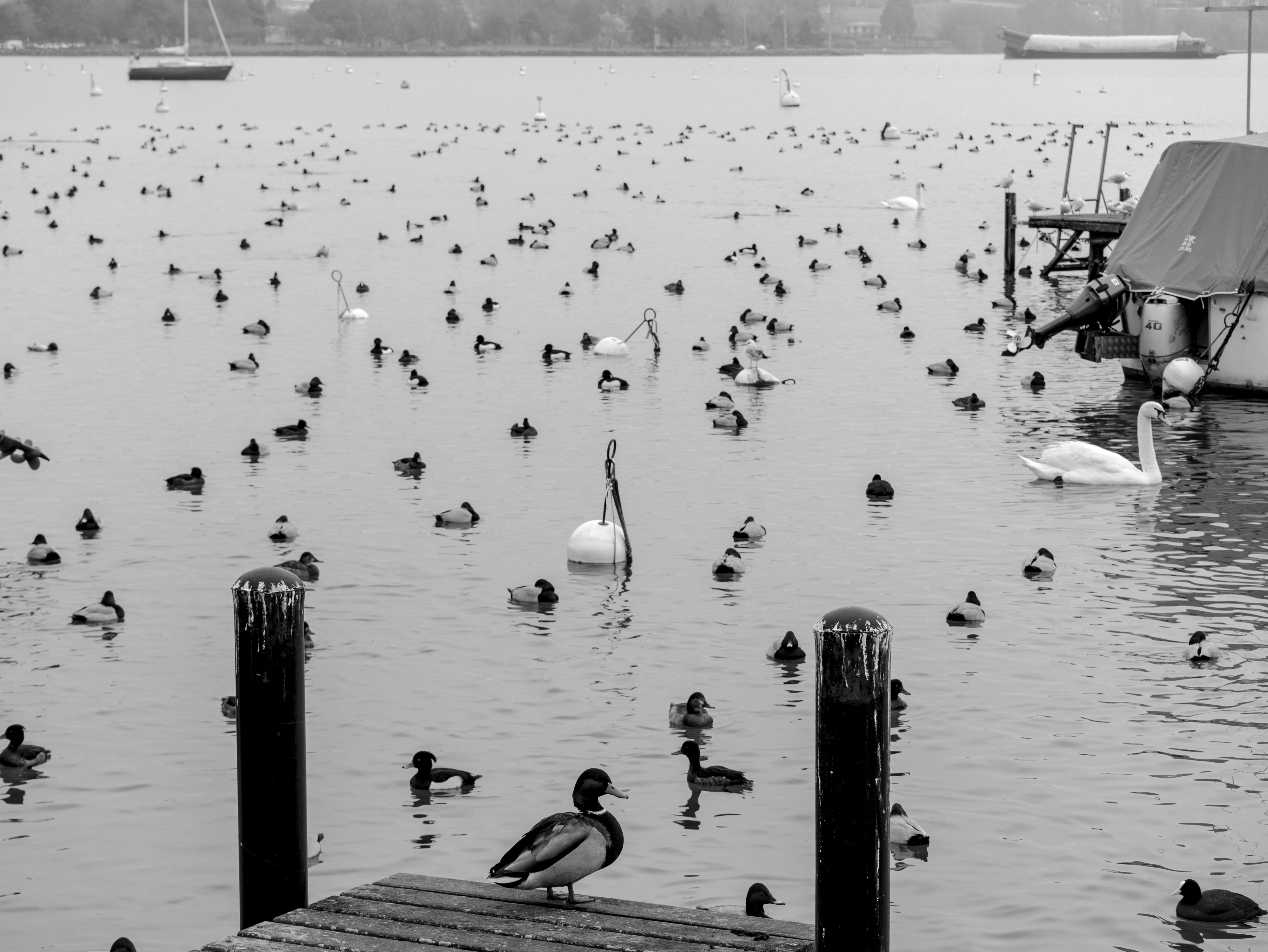 Along Geneva Lake, near Lausanne